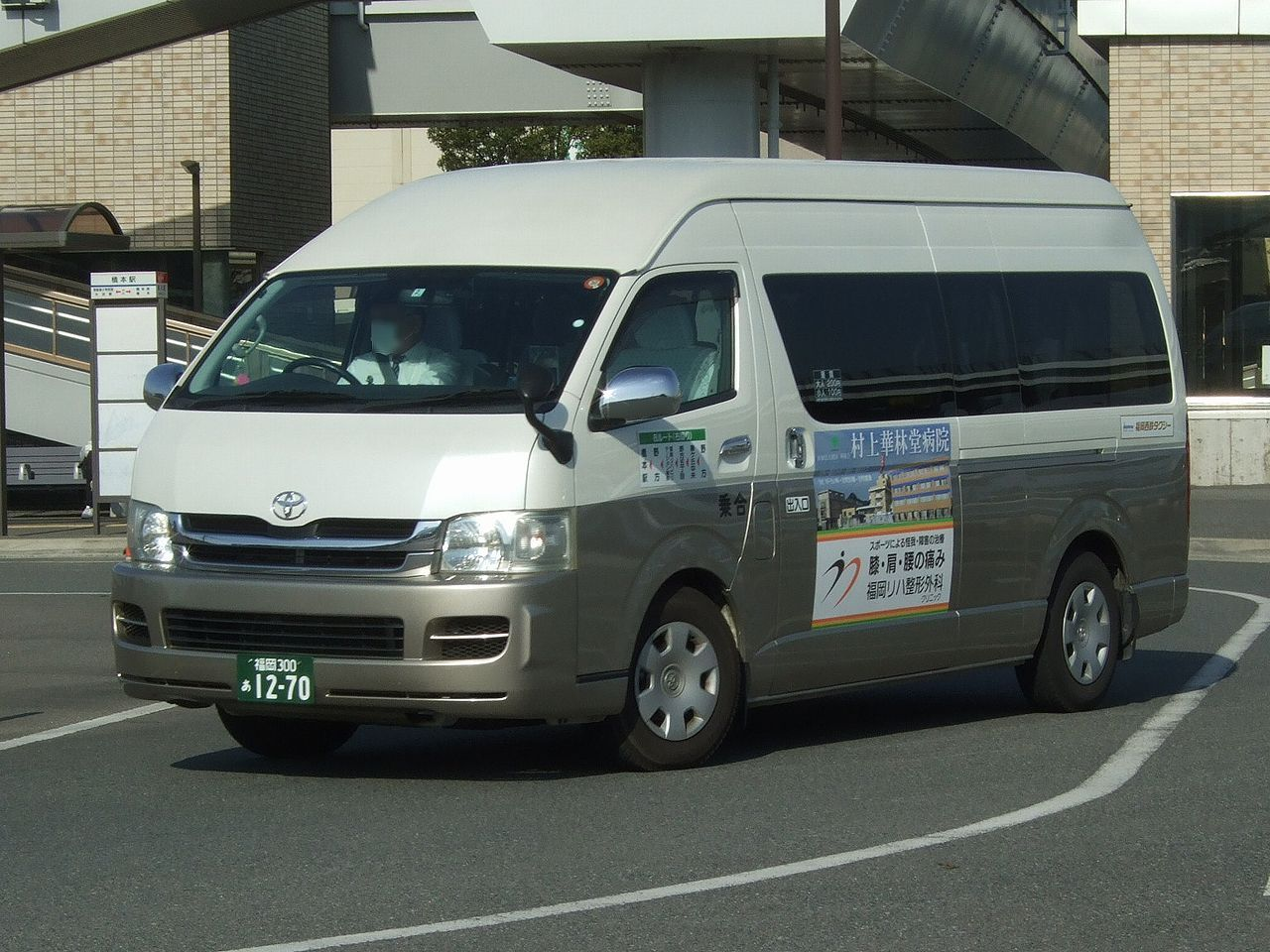 Hashimoto Station Loop Mini Bus Company:Fukuoka Nishitetsu Taxi Use:transit bus (community bus) Car license:FOF300 A 1270 Type:Toyota HiAce Location:Hashimoto Station, Nishi Ward, Fukuoka City, Fukuoka, Japan.